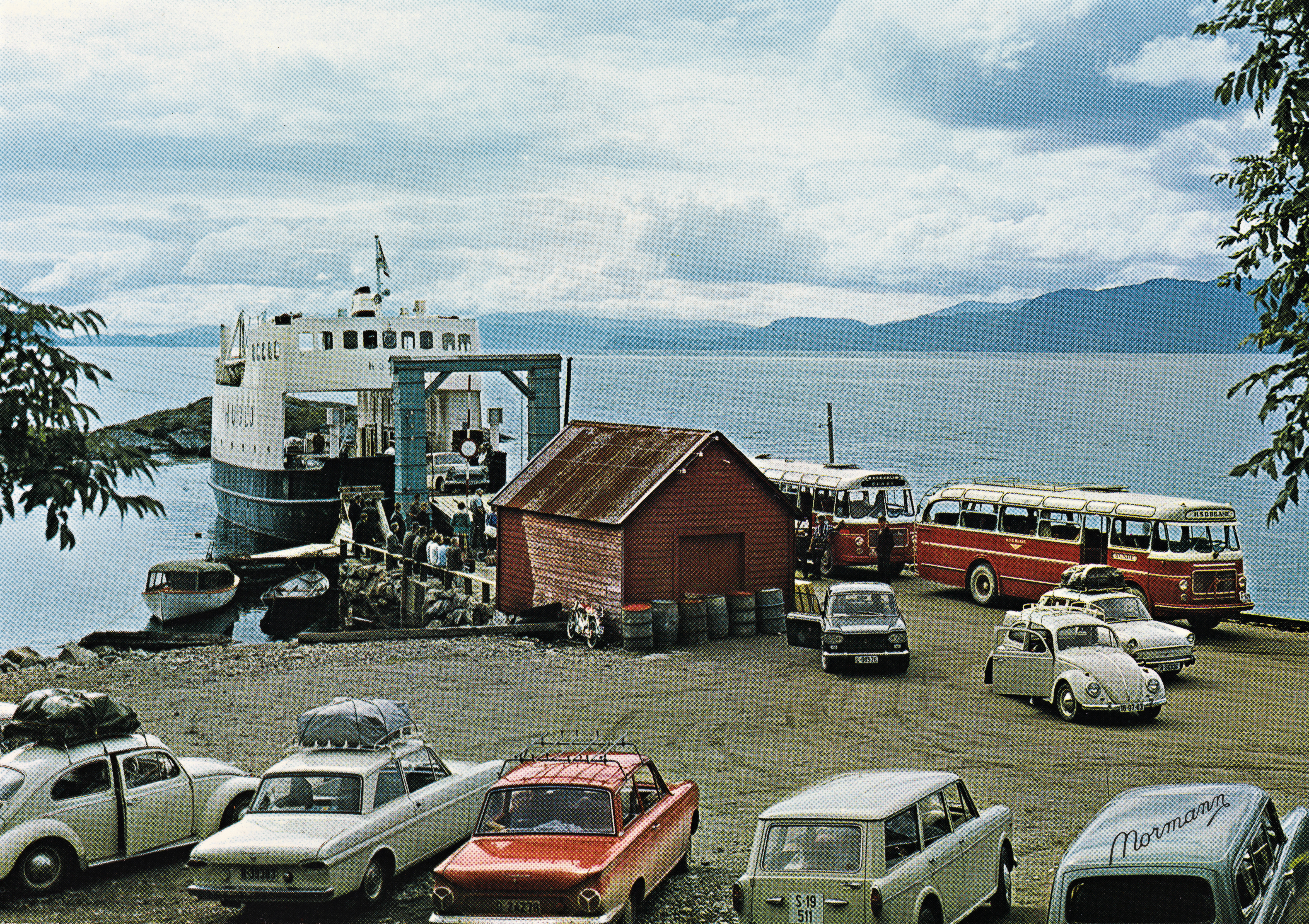 Beskrivelse / Description: Postkort. Dato / Date: ca 1970 Sted / Place: Hordaland, Kvinnherad, Løfallstrand Fotograf / Photographer: Normann Utgiver / Publisher: Normanns kunstforlag AS Digital kopi av original / Digital copy of original: trykt postkort, farge Eier / Owner Institution: Nasjonalbiblioteket / National Library of Norway Lenke / Link: Bildesignatur / Image Number: blds_05917